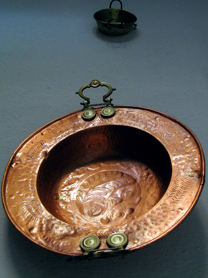 Brasero